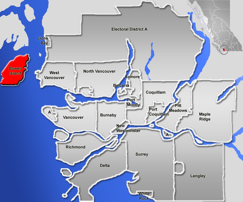 Location of Bowen Island, Greater Vancouver Area, British Columbia